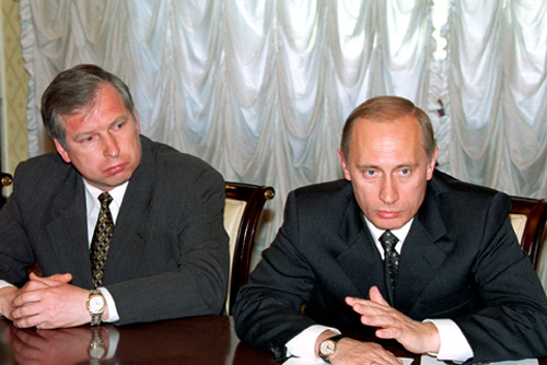 THE KREMLIN, MOSCOW. President Putin introducing Viktor Cherkesov, Plenipotentiary Presidential Envoy to the North-West Federal District.